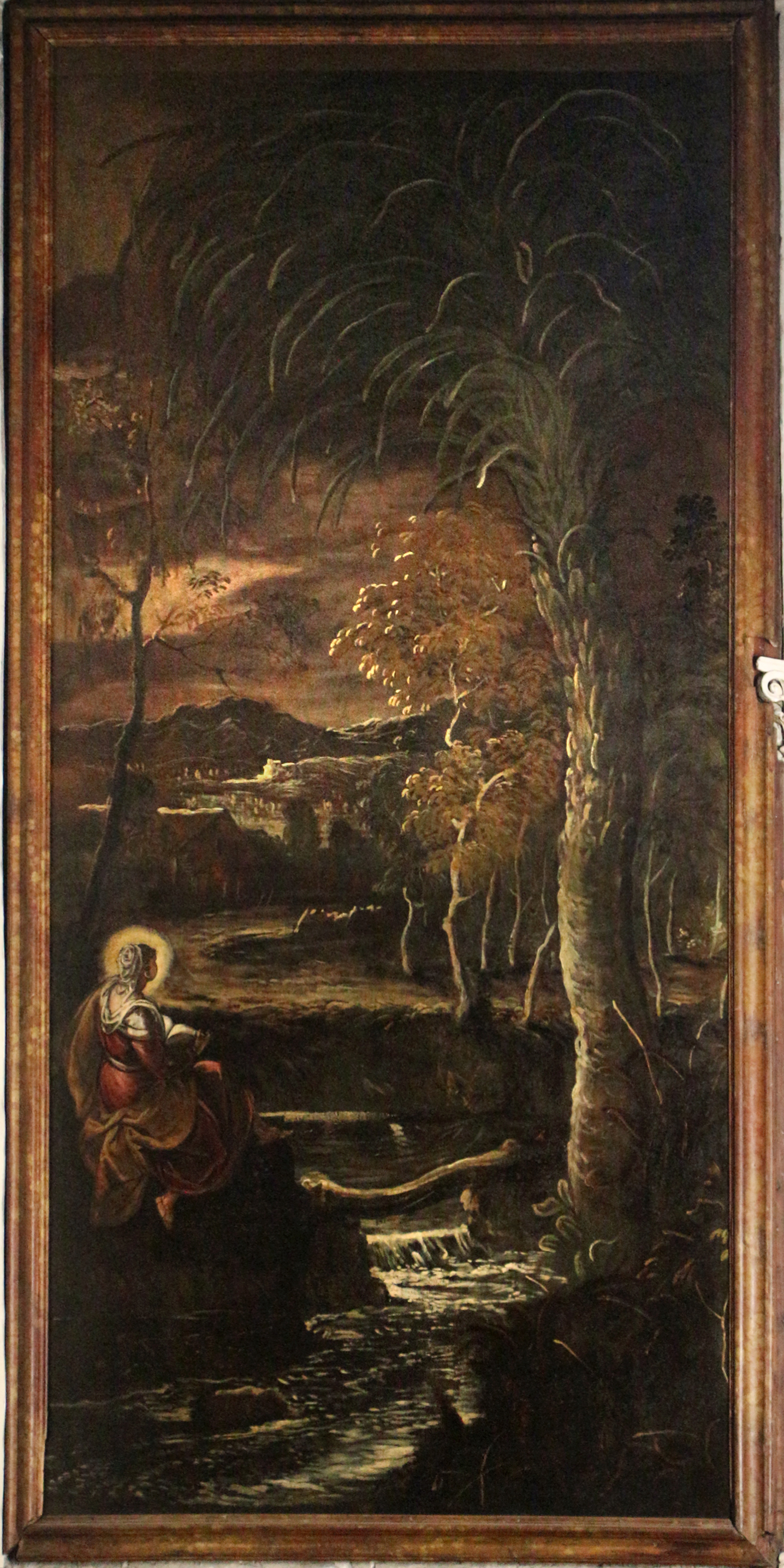 Paintings by Tintoretto in Scuola Grande di San Rocco - Sala terrena